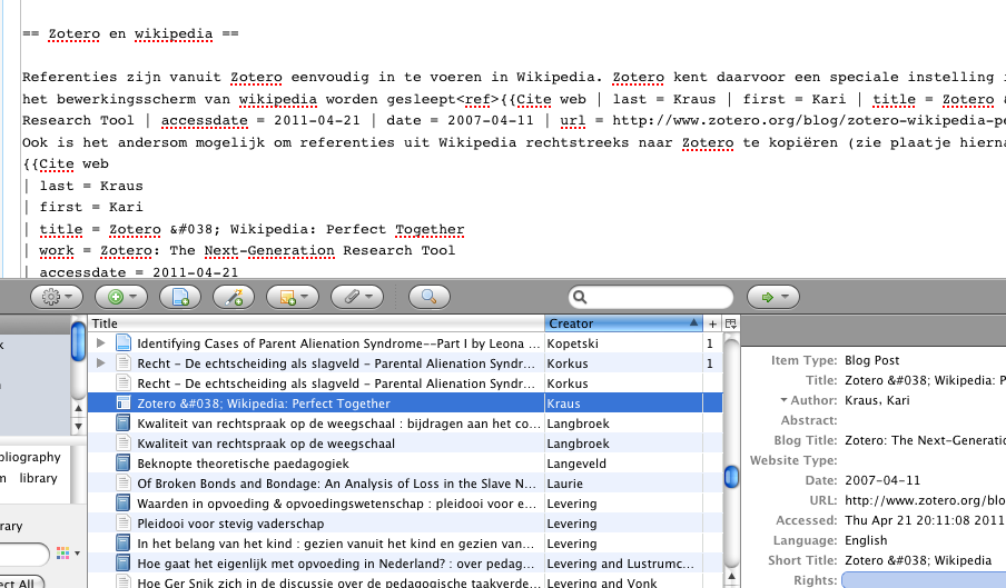 zotero to wikipedia